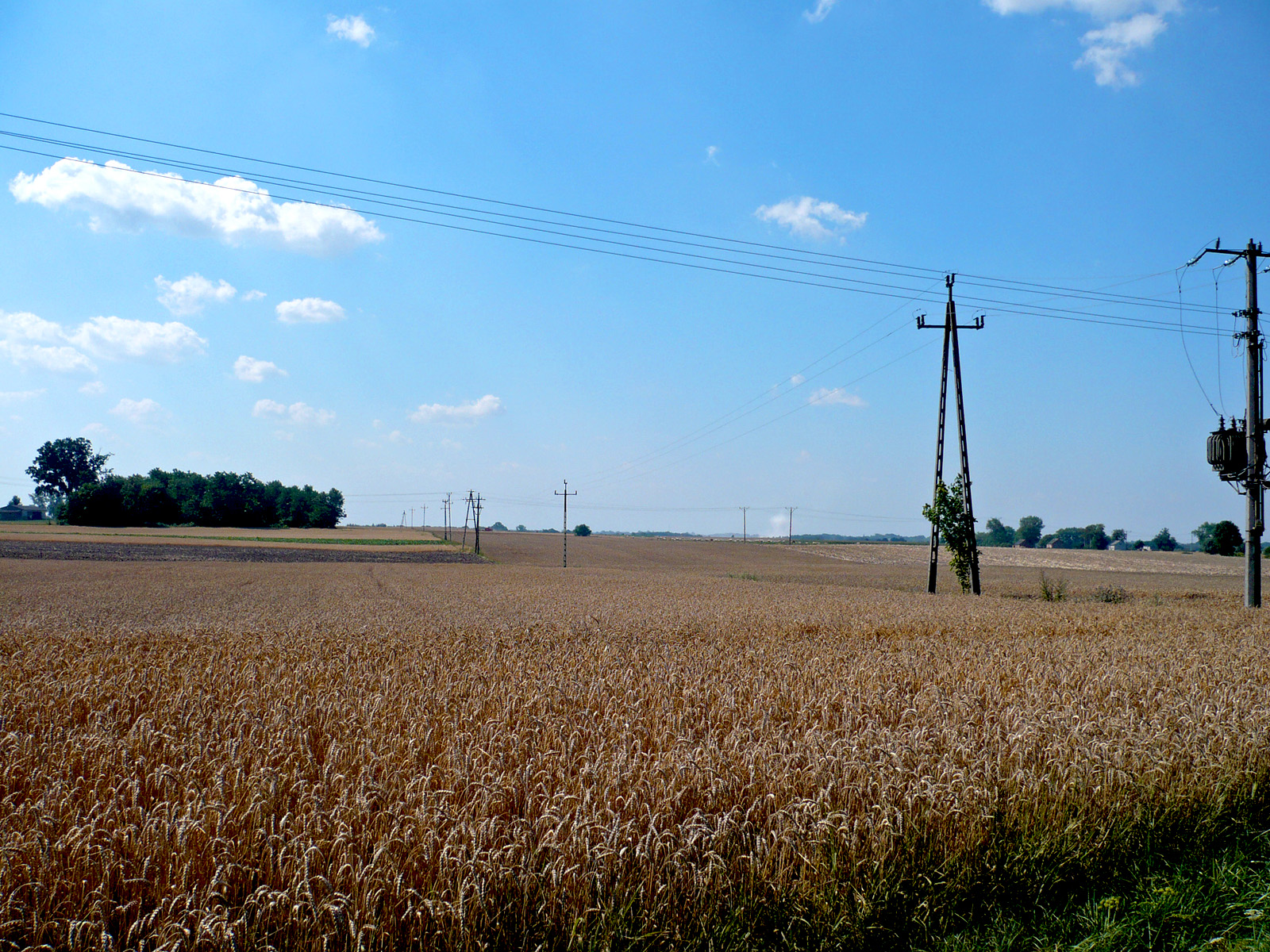 Field Crops in Jasiewo